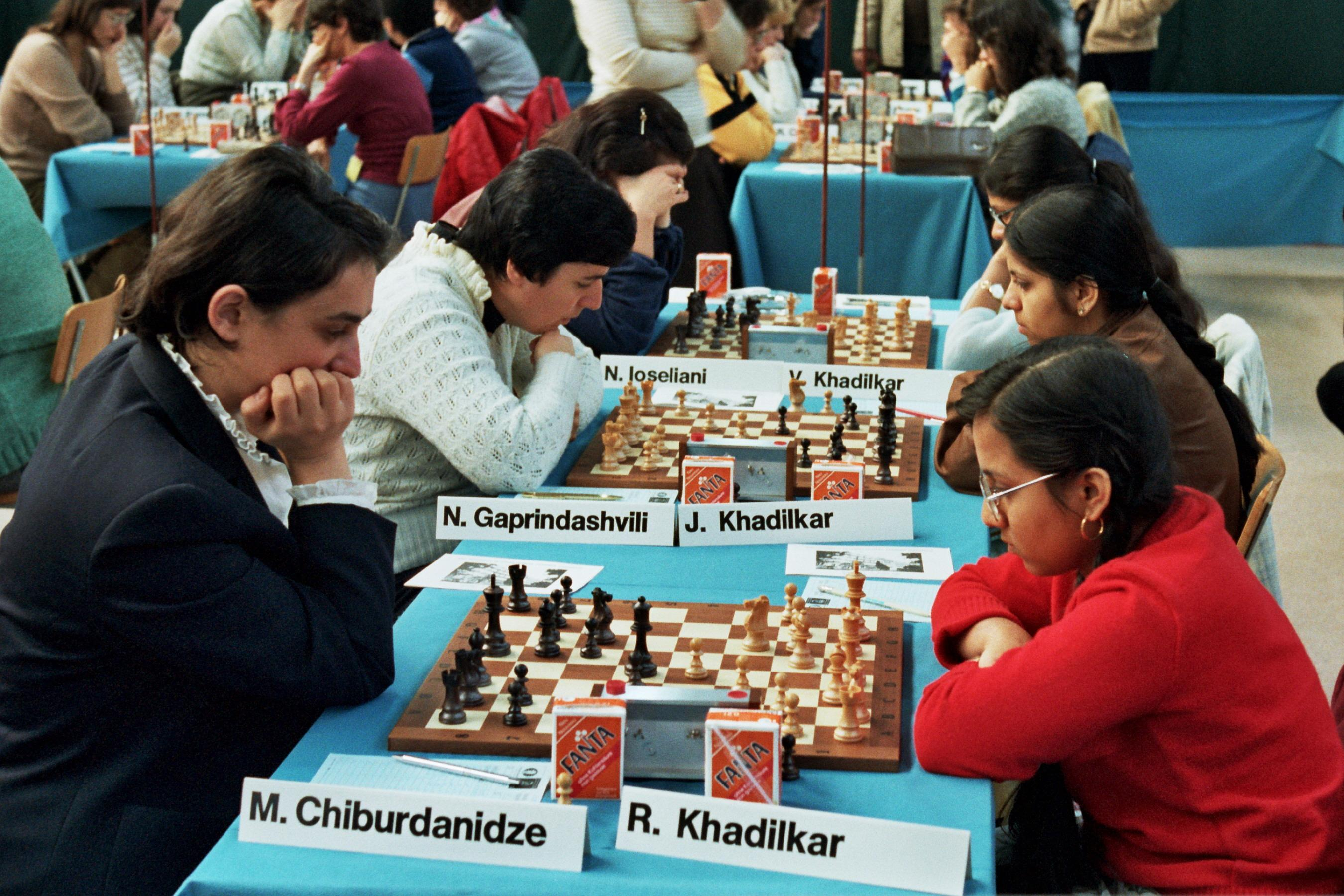 Soviet Union - India (Vasanti, Jayshree and Rohini Khadilkar), Chess Olympiad 1982 in Luzern, Photographer Gerhard Hund.